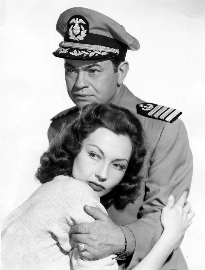 Promotion photo: Lynn Bari with Edward G. Robinson in Tampico (1944).